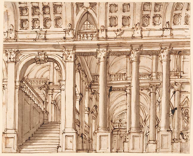 A Palace Hallway with a Grand Staircase at Left by Angelo Toselli Pen and brown ink, with gray-brown wash, on paper, 160 x 200 mm.